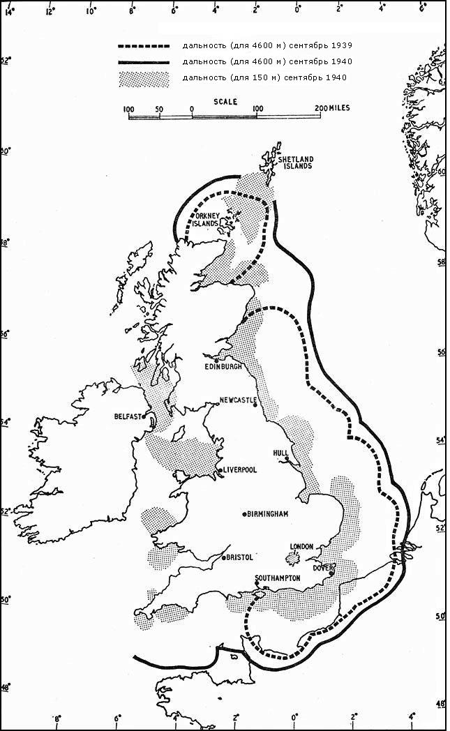 RADAR COVER, SEPTEMBER 1939 AND SEPTEMBER 1940